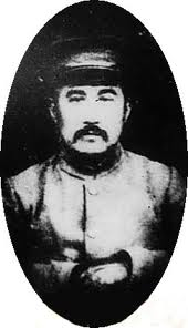 Chang Hengfang (1882－1950)